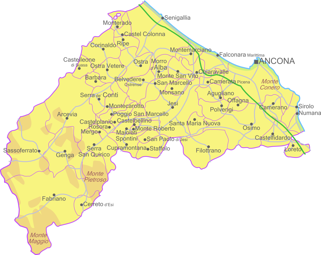 Map of the Province of Ancona, Italy